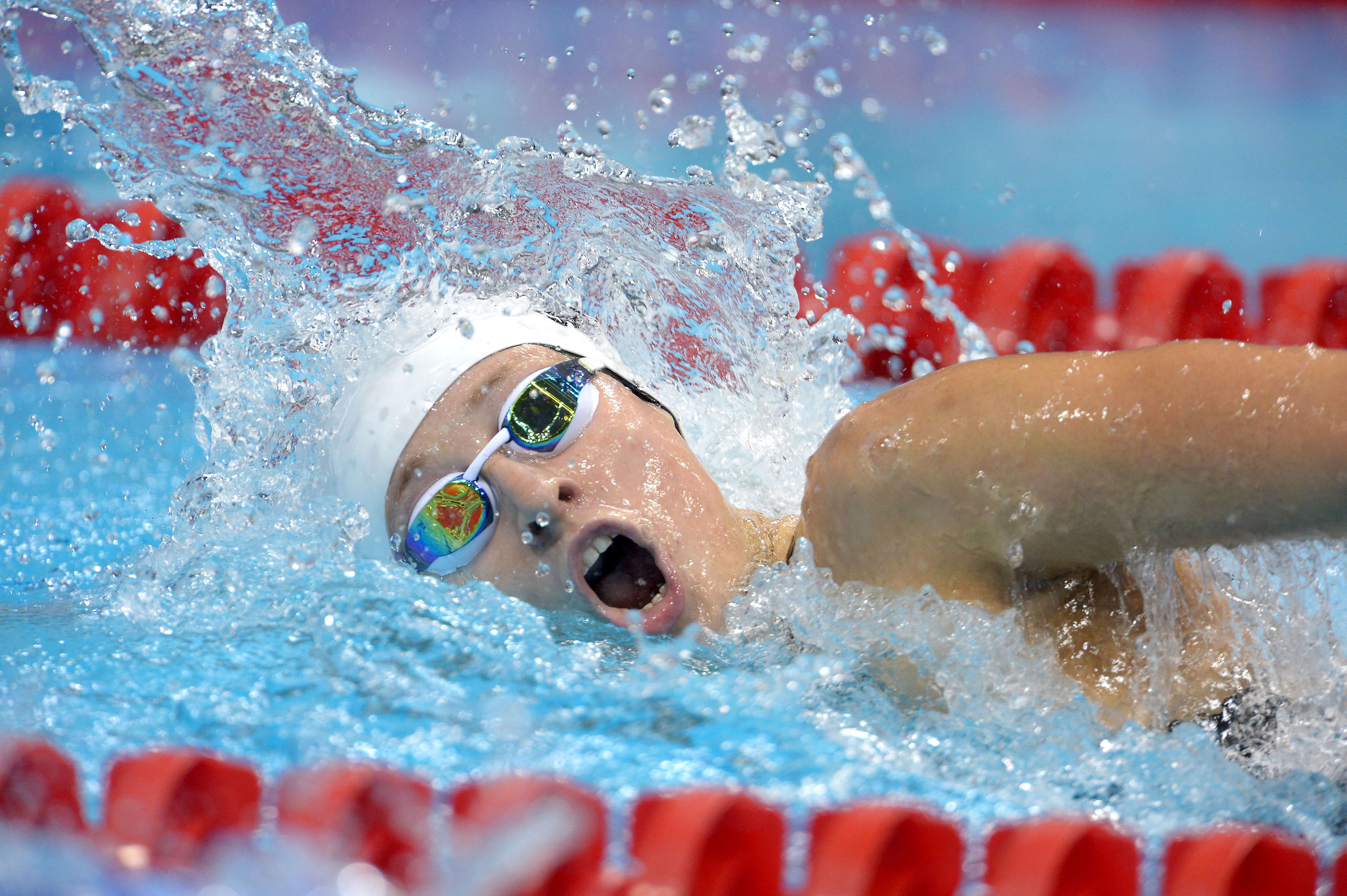 Photograph of Australian Paralympic team member Taylor Corry at the 2012 Summer Paralympic Games in London